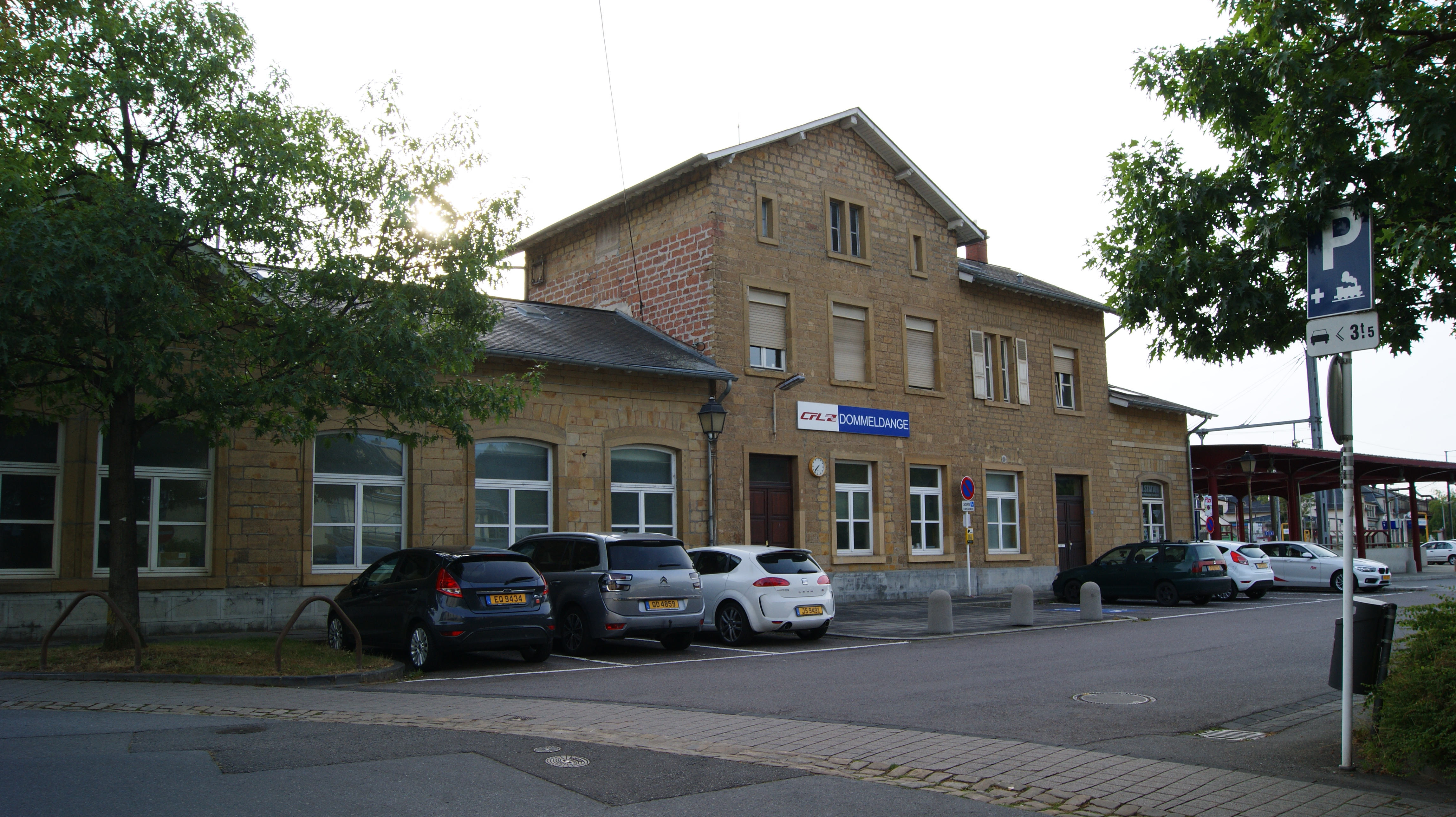 Railwaystation Dommeldange in the City of Luxembourg in the Grand Duchy of Luxembourg.